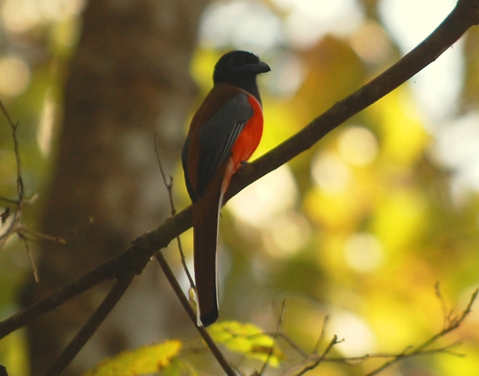 A male Malabar Trogon photographed in the wild in the Anamalais, South India